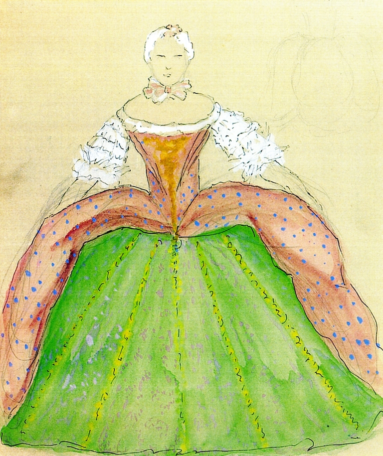 painting by Marianne von Werefkin